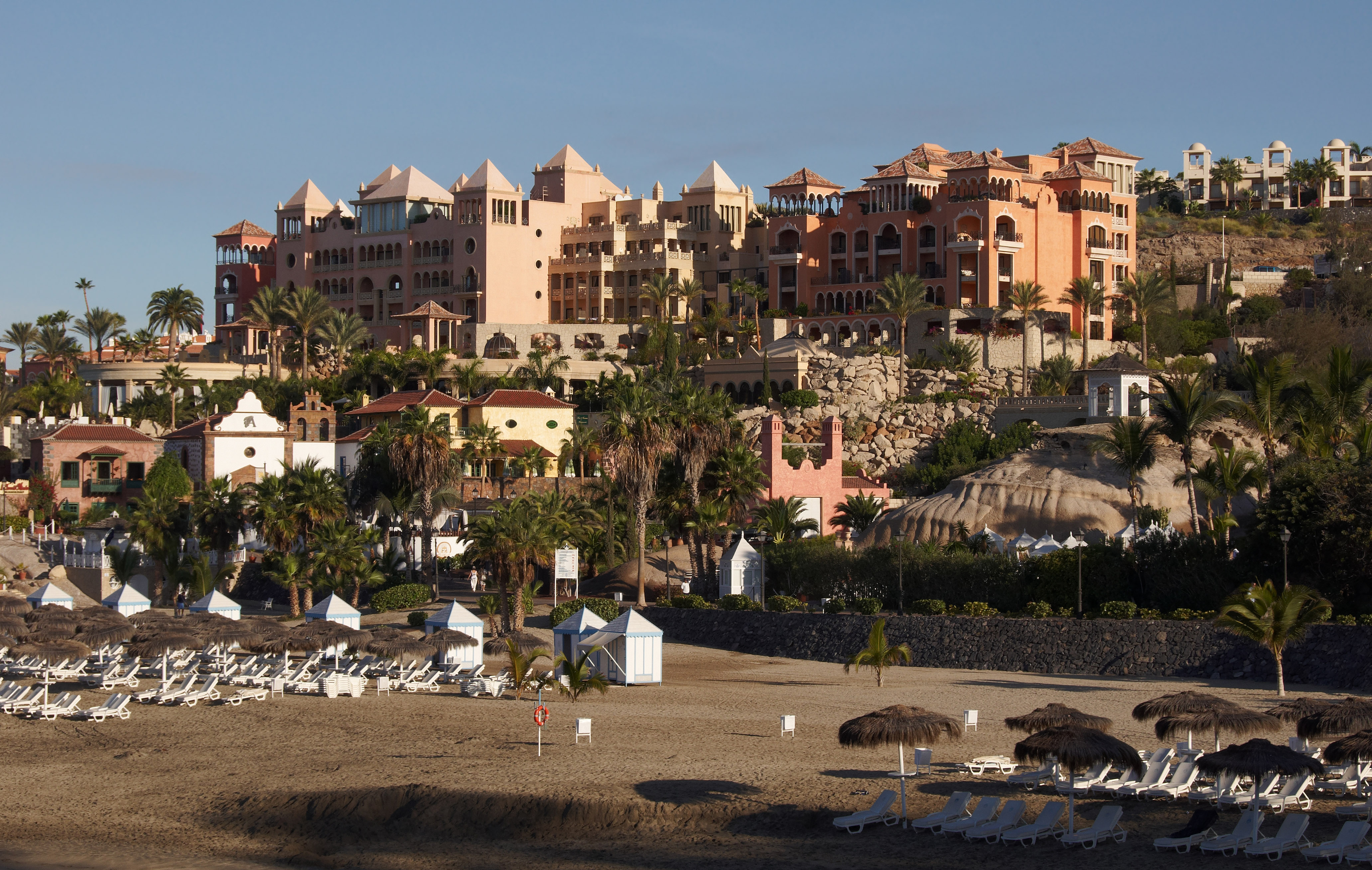 Hotel Bahia del Duque in Costa Adeje, Tenerife